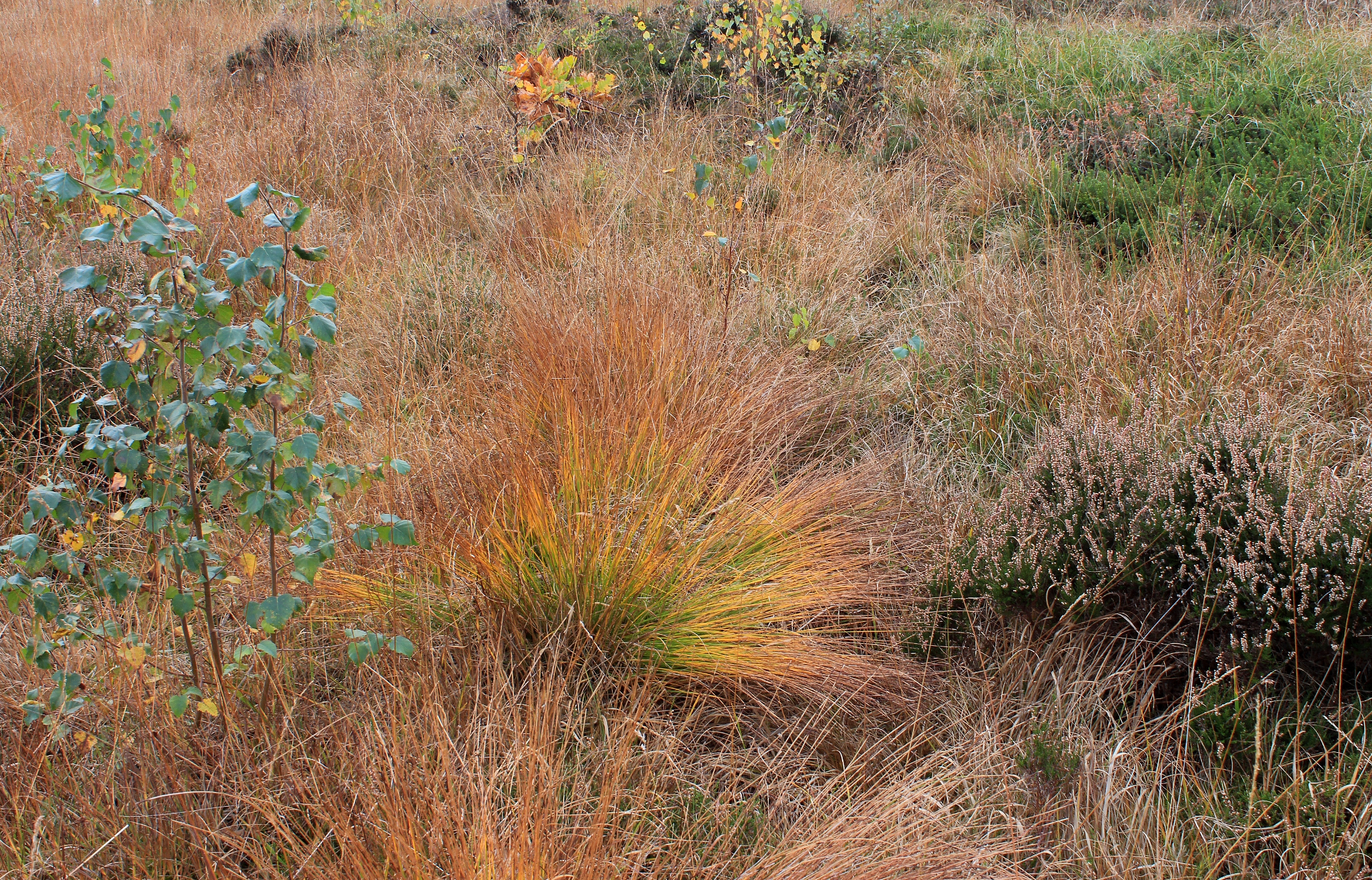 Molinia caerulea: Typical habitat in association with Betula pendula, Empetrum nigrum and Calluna vulgaris.